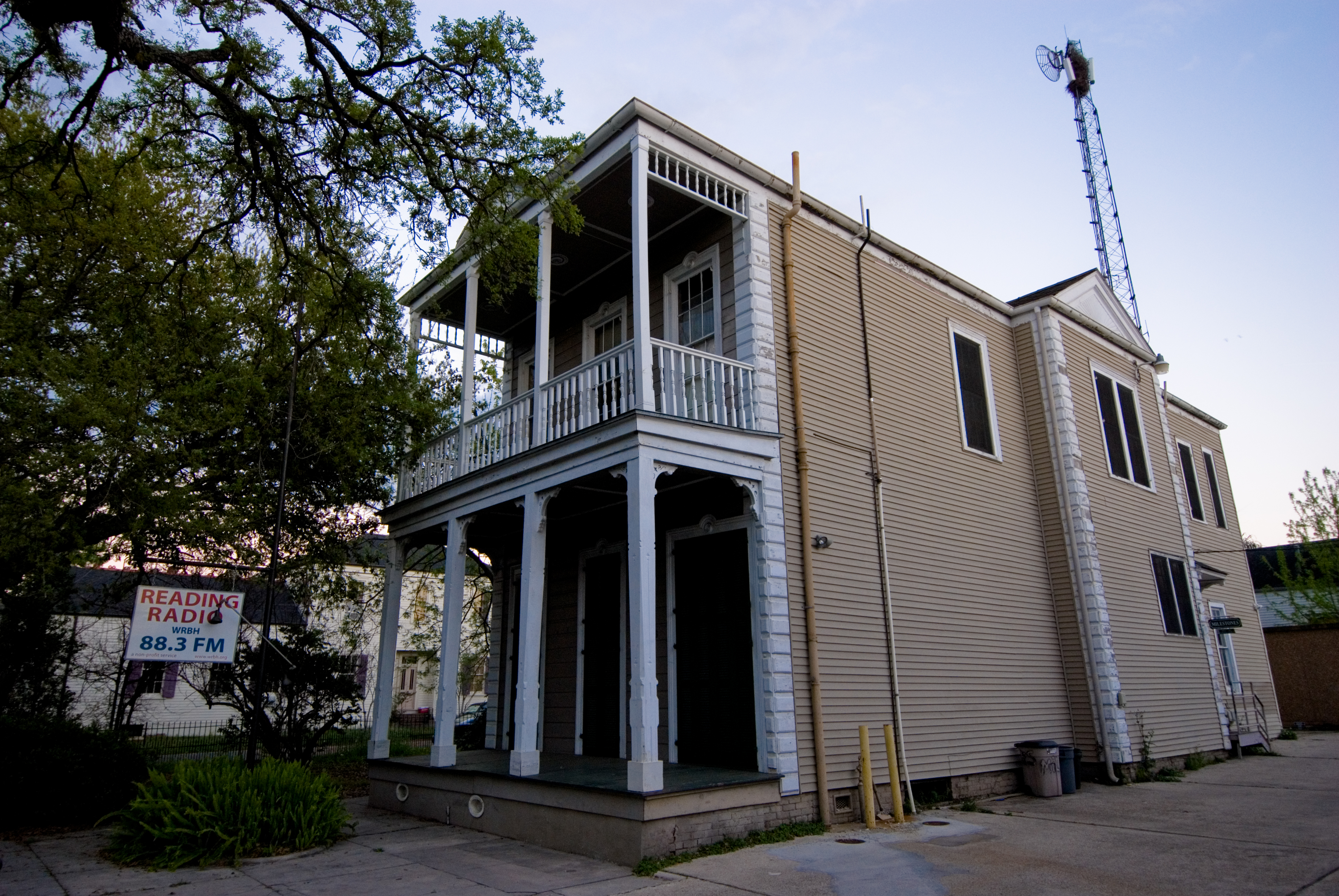 WRBH, New Orleans. This looked like a neat little establishment. Complete with radio tower containing a giant nest.